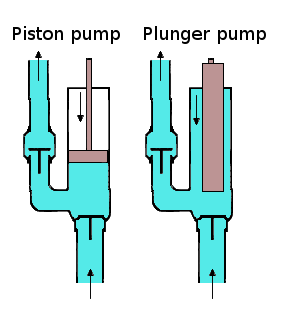 Schematic of a piston and a plunger pump. This schematic is made for quick and easy comparison of both types. After